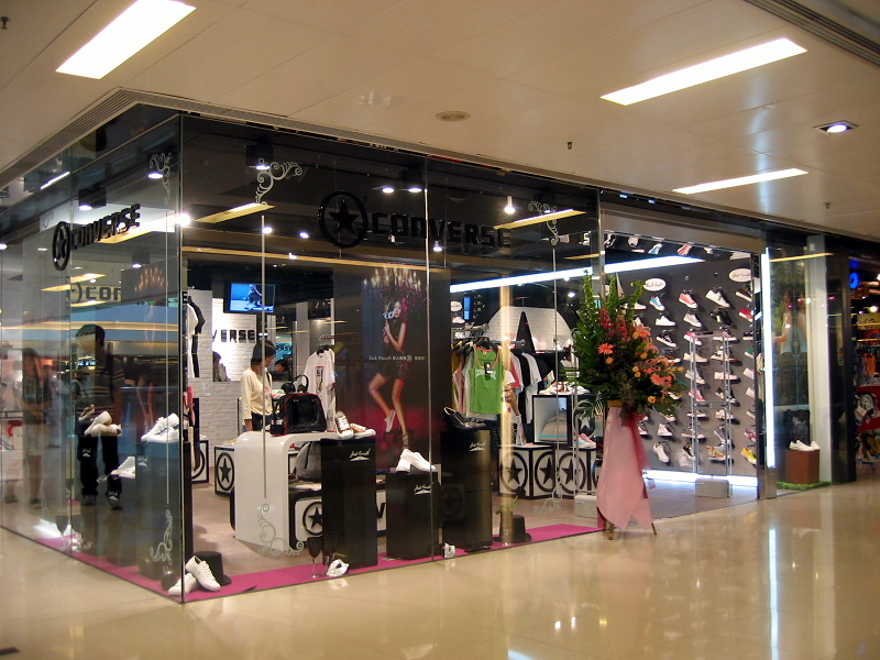 Converse Store in New Town Plaza